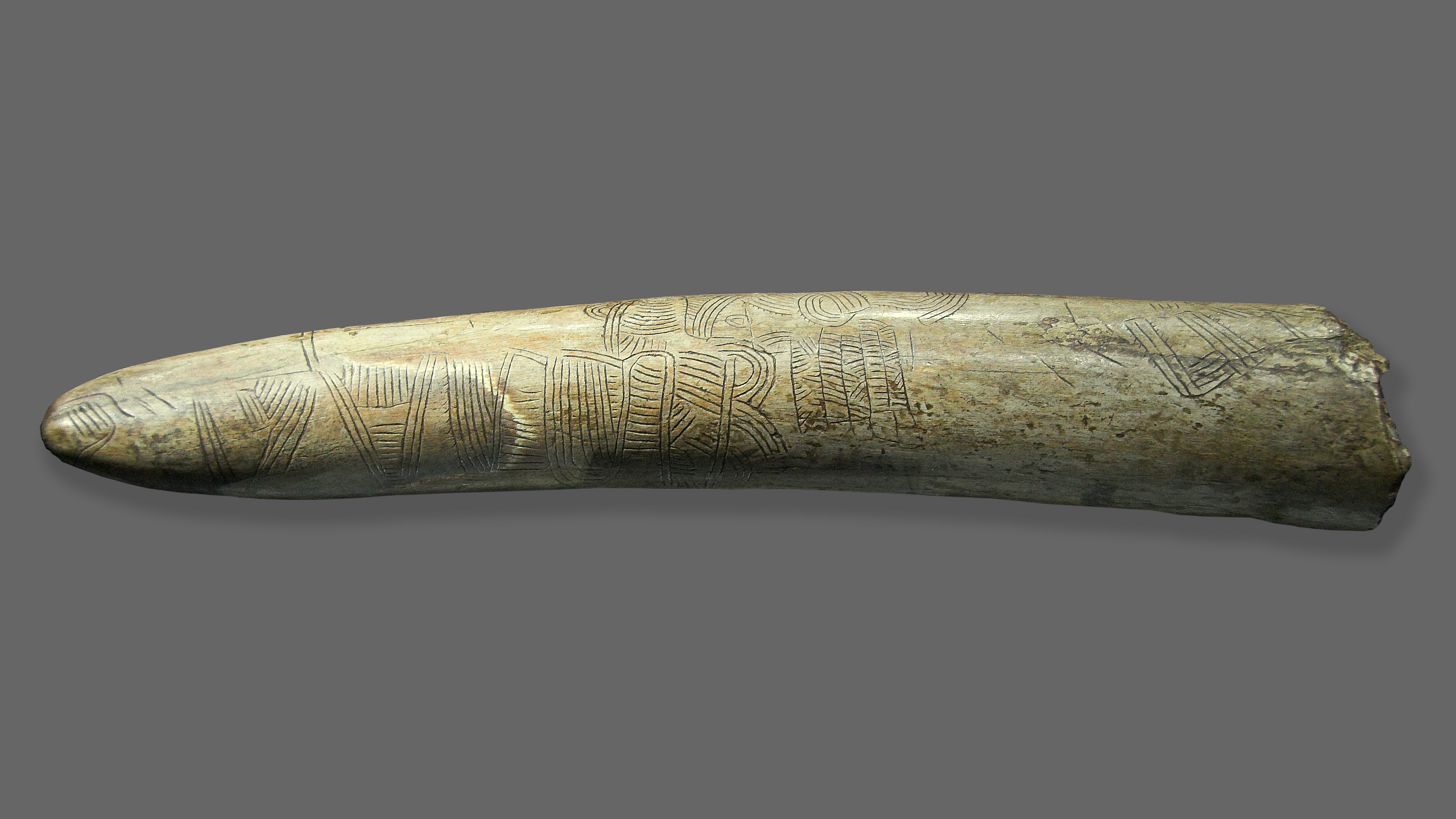 Engraving on a mammoth tusk perhaps representing a “map”, Pavlov (Břeclav DIstrict, Southern Moravia, Chech Republic), deposited in ArÚ AVČR Brno. Gravettian. Original. Length 37 cm. Temporary exhibition the Mammoth hunters in the NM Prague. The Pavlovské Hills were created by the arches at top right. In the foothills, the Pavlov settlement appears to have been marked by a circle, while a wavy pattern at the bottom is thought to have symbolized the meanders of the River Dyje. This engraving may well be the oldest known representation of a landscape. Excavation under B. Klíma.